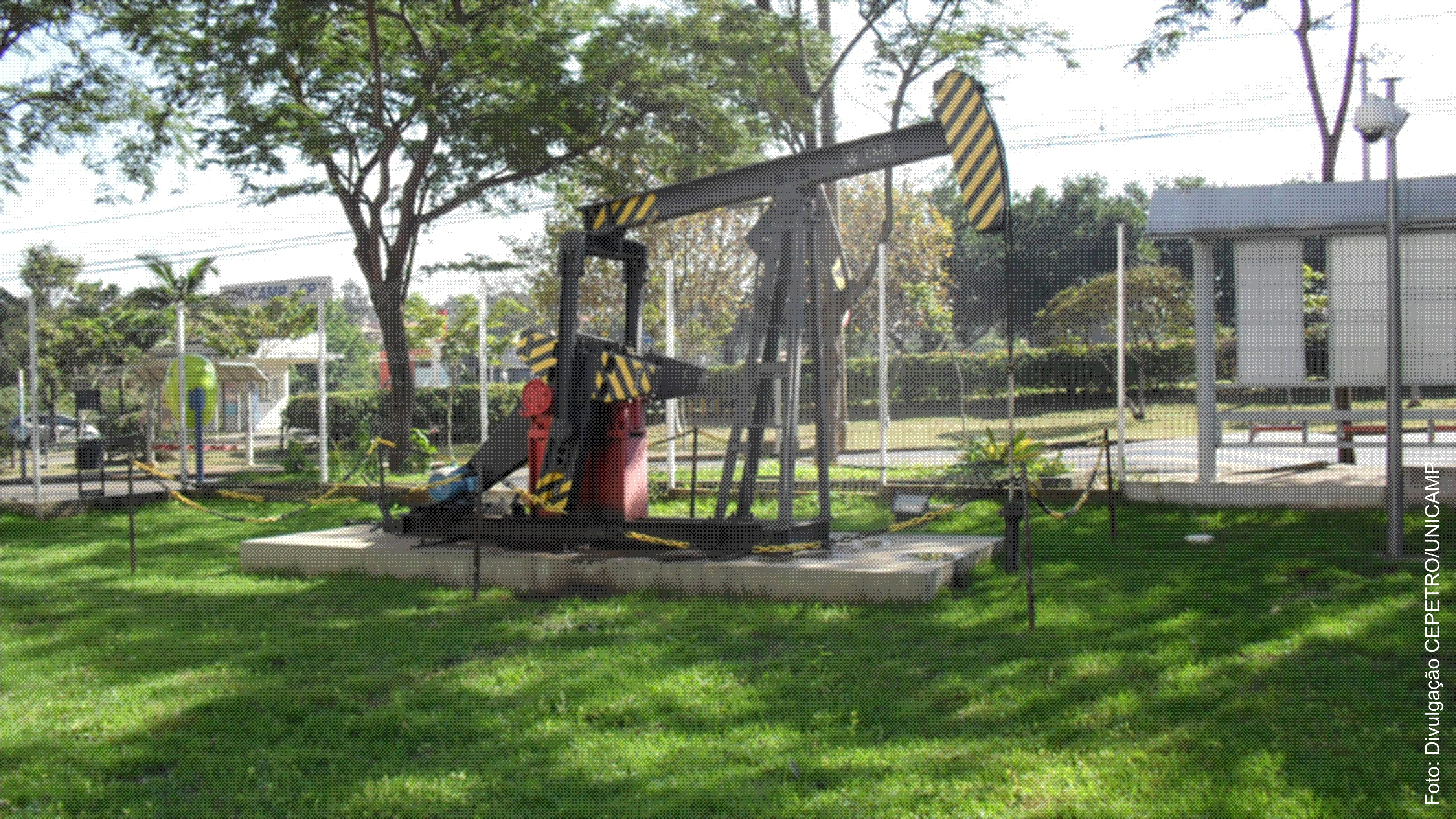 Replica of a nodding donkey pump used for the extraction of oil onshore, built in the garden of the Center for Petroleum Studies (CEPETRO), São Paulo, Brazil.